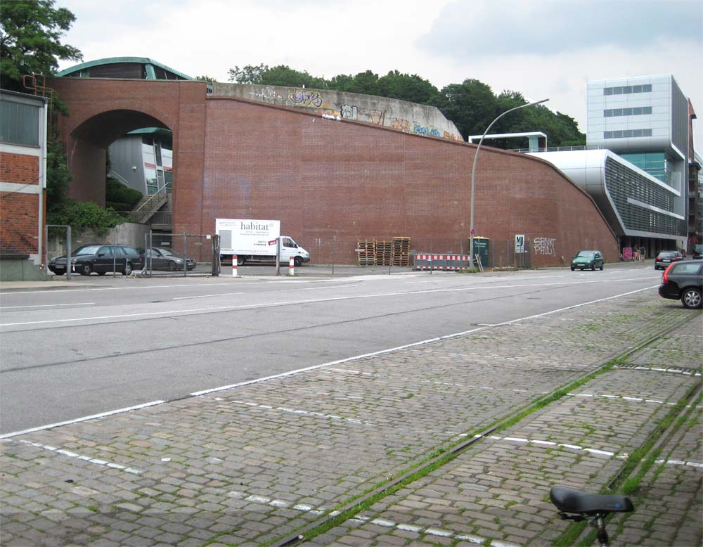 Altona Quai, Hamburg, Germany, 2012